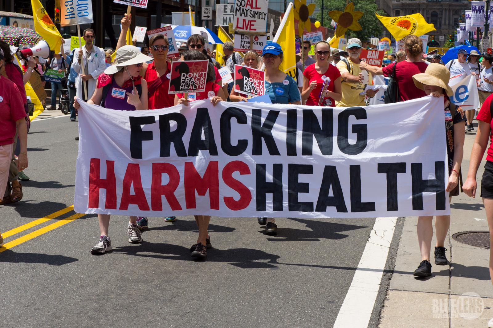 "Fracking harms health". Photo at the Clean Energy March in Philadelphia on 24 July 2016. I heard informally that over 7'000 people showed up! - Mark Dixon